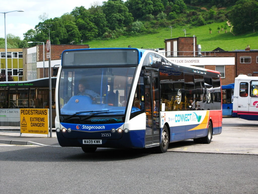 Stagecoach South West's 25253 (an Optare Versa registered WA09KWK) pulls out of Yeovil bus station at the start of a journey to Taunton via Chard.